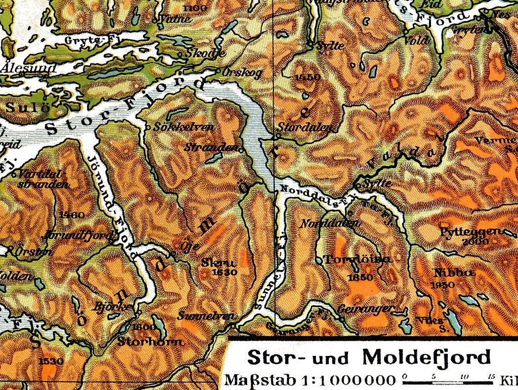 European cities and landscapes, Storfjorden and Moldefjorden